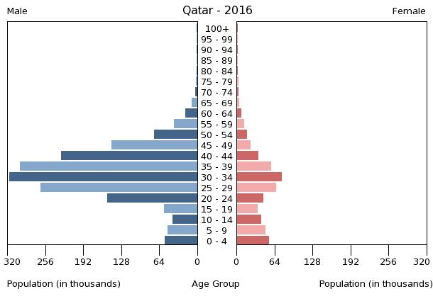 The population pyramid of Qatar illustrates the age and sex structure of population and may provide insights about political and social stability, as well as economic development. The population is distributed along the horizontal axis, with males shown on the left and females on the right. The male and female populations are broken down into 5-year age groups represented as horizontal bars along the vertical axis, with the youngest age groups at the bottom and the oldest at the top. The shape of the population pyramid gradually evolves over time based on fertility, mortality, and international migration trends.